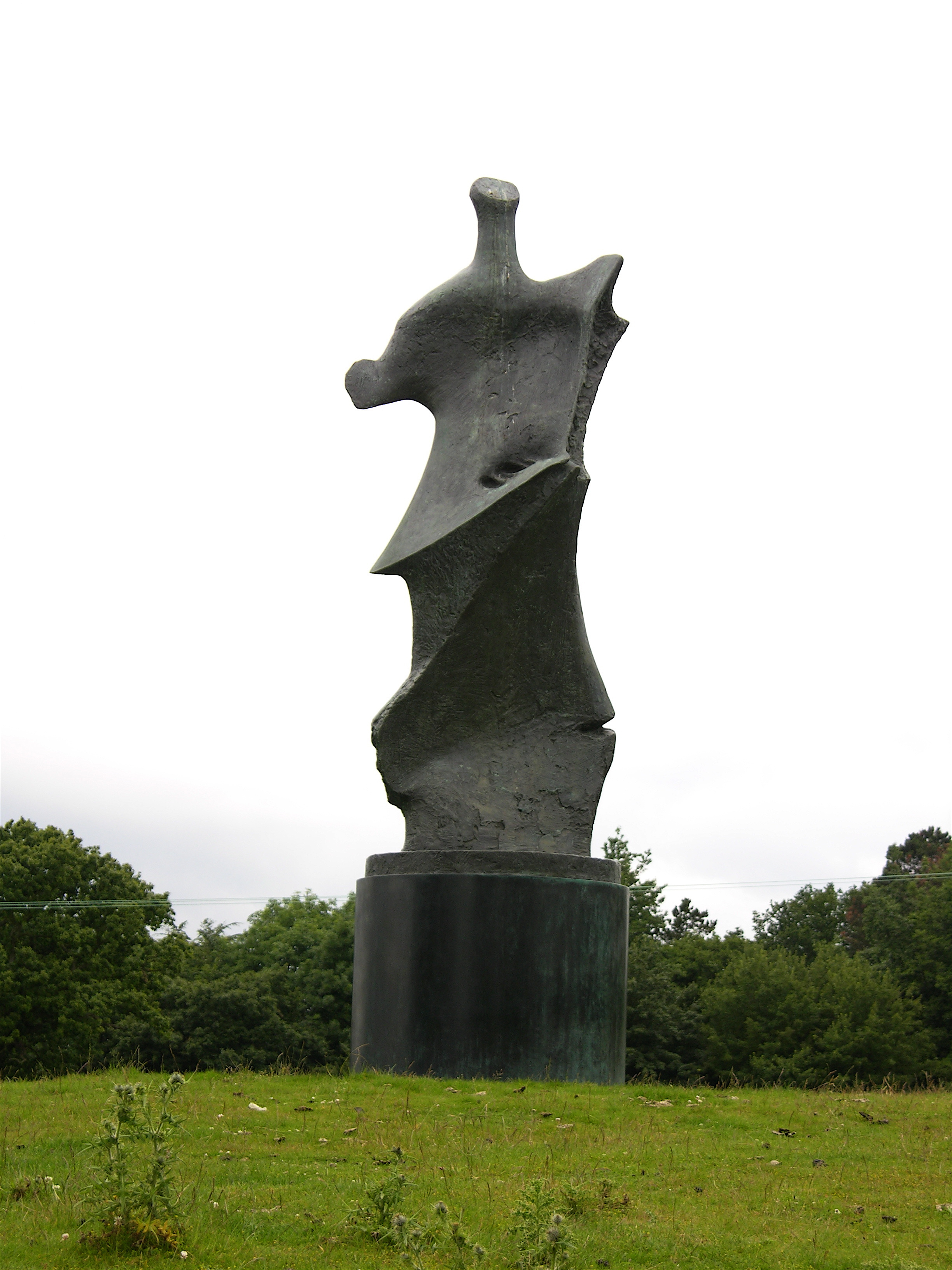 Sculpture Large Standing Figure (Knife Edge) - 1976 by Henry Moore, Yorkshire Sculpture Park in England